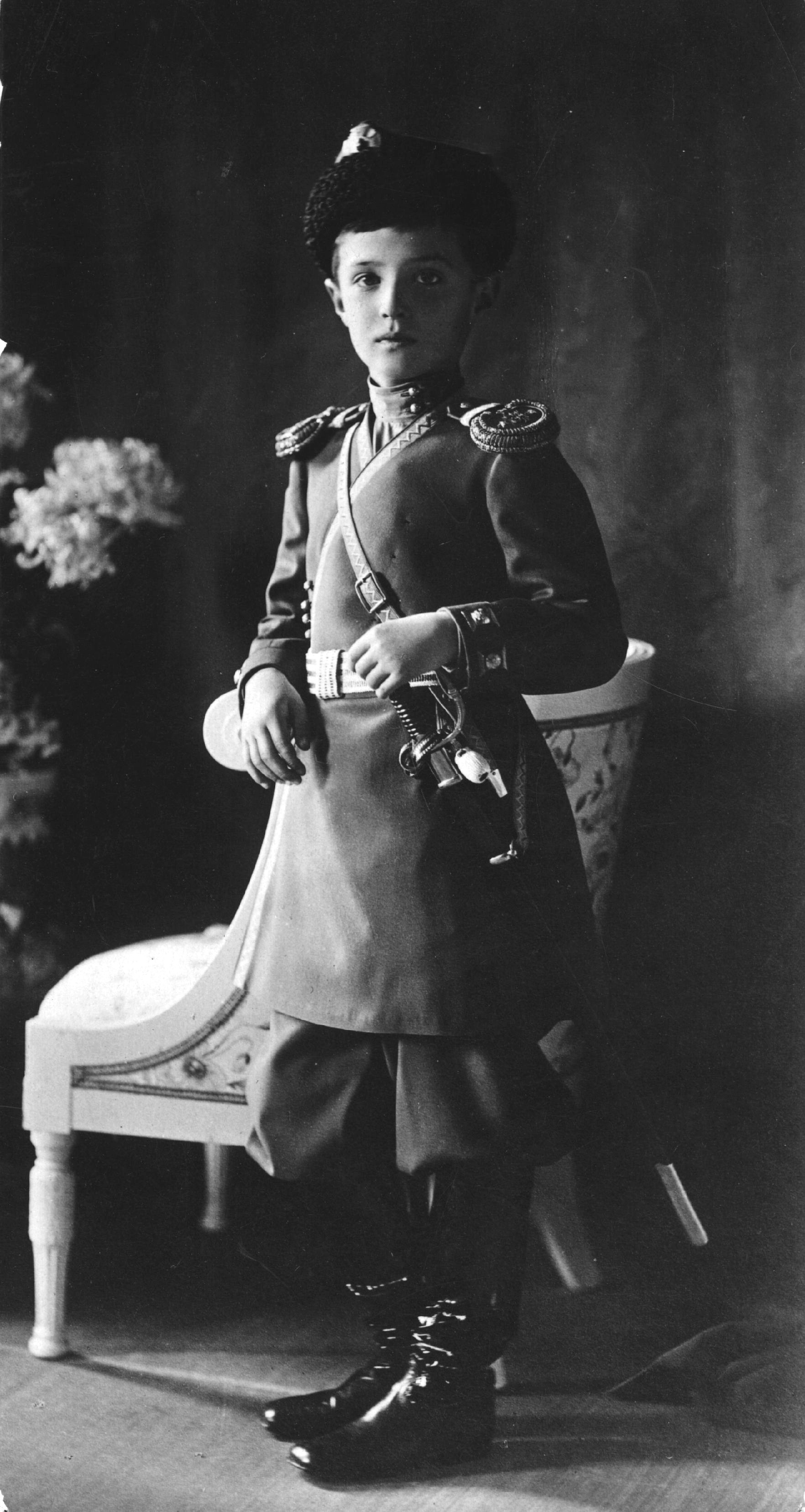 Tsarevich Alexei Nikolaevich in uniform of the Jeager regiment of the Imperial family.